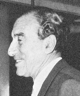 Enrico Marchesano